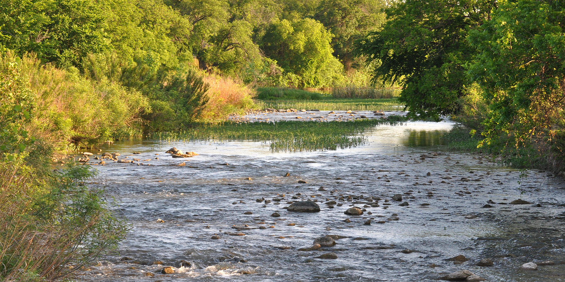 San Saba River near Sloan, San Saba County, Texas, USA. Photographed on 9 May 2014 by William L. Farr